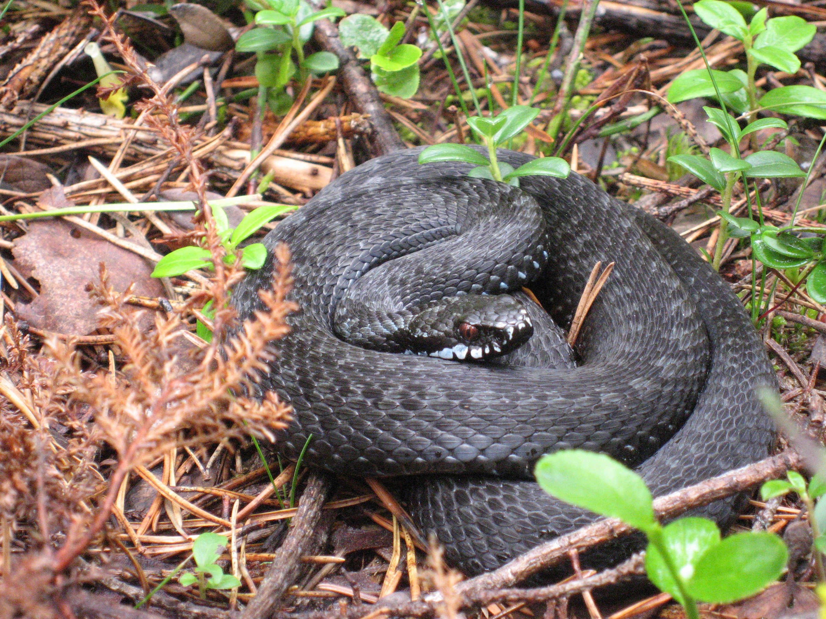 Vipera berus in Färnebofjärden national park